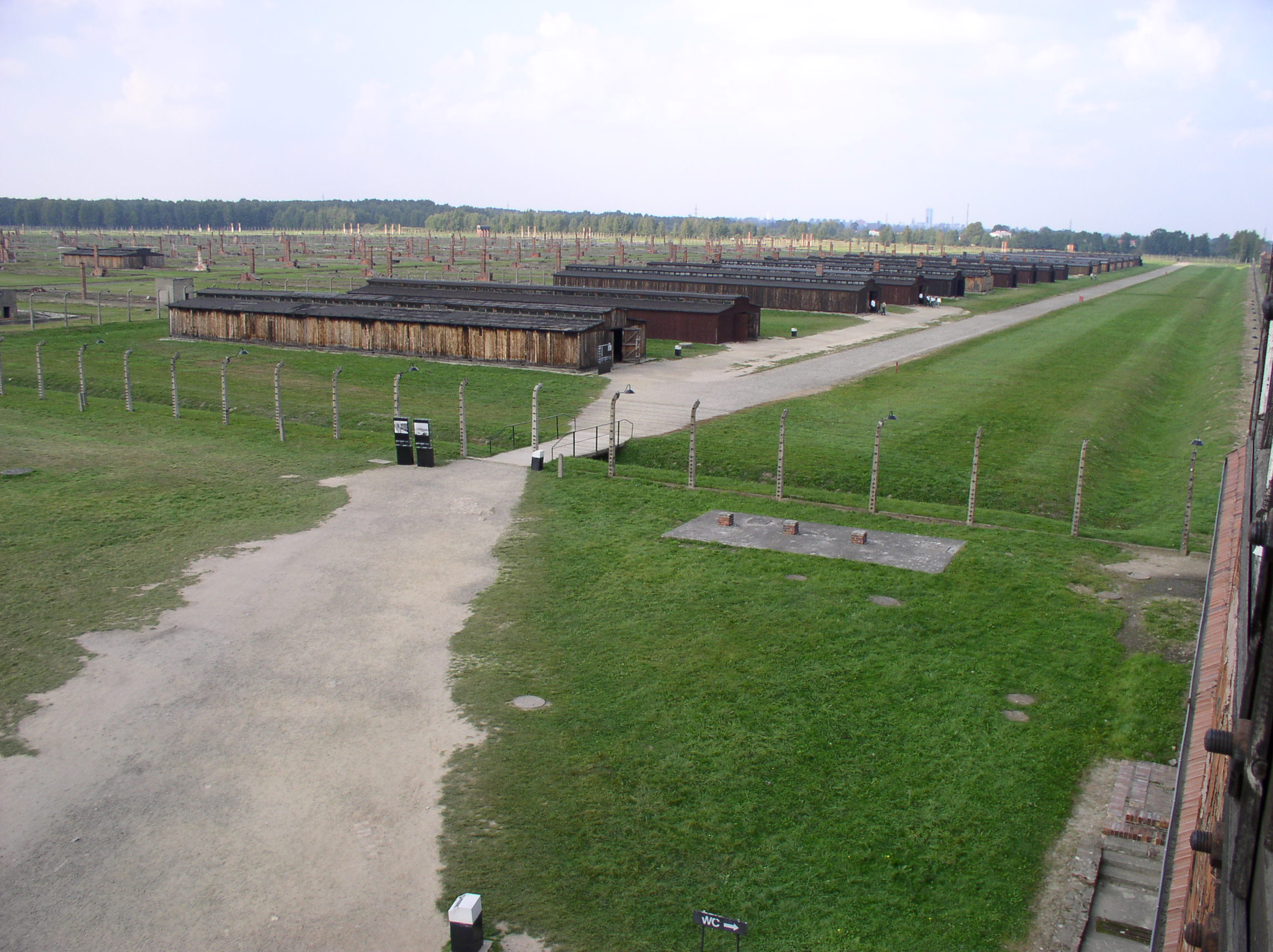 KZ Auschwitz-Birkenau, Poland. Panorama from the entrance tower